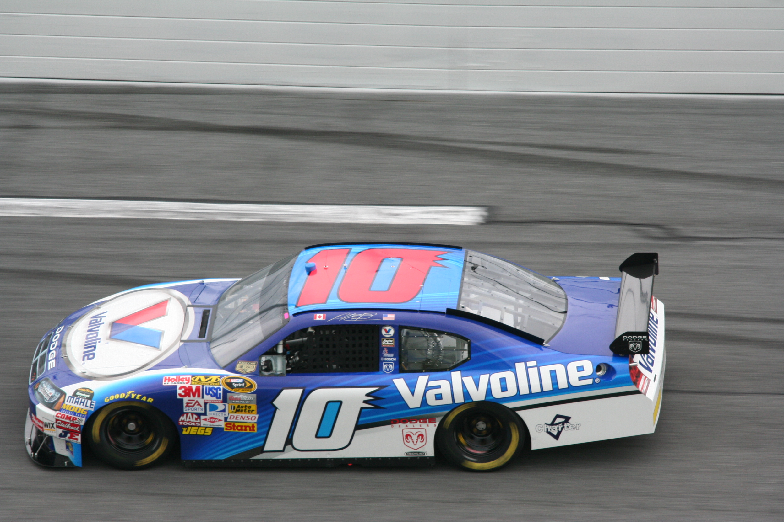 Shot by "The Daredevil" at Daytona during Speedweeks 2008